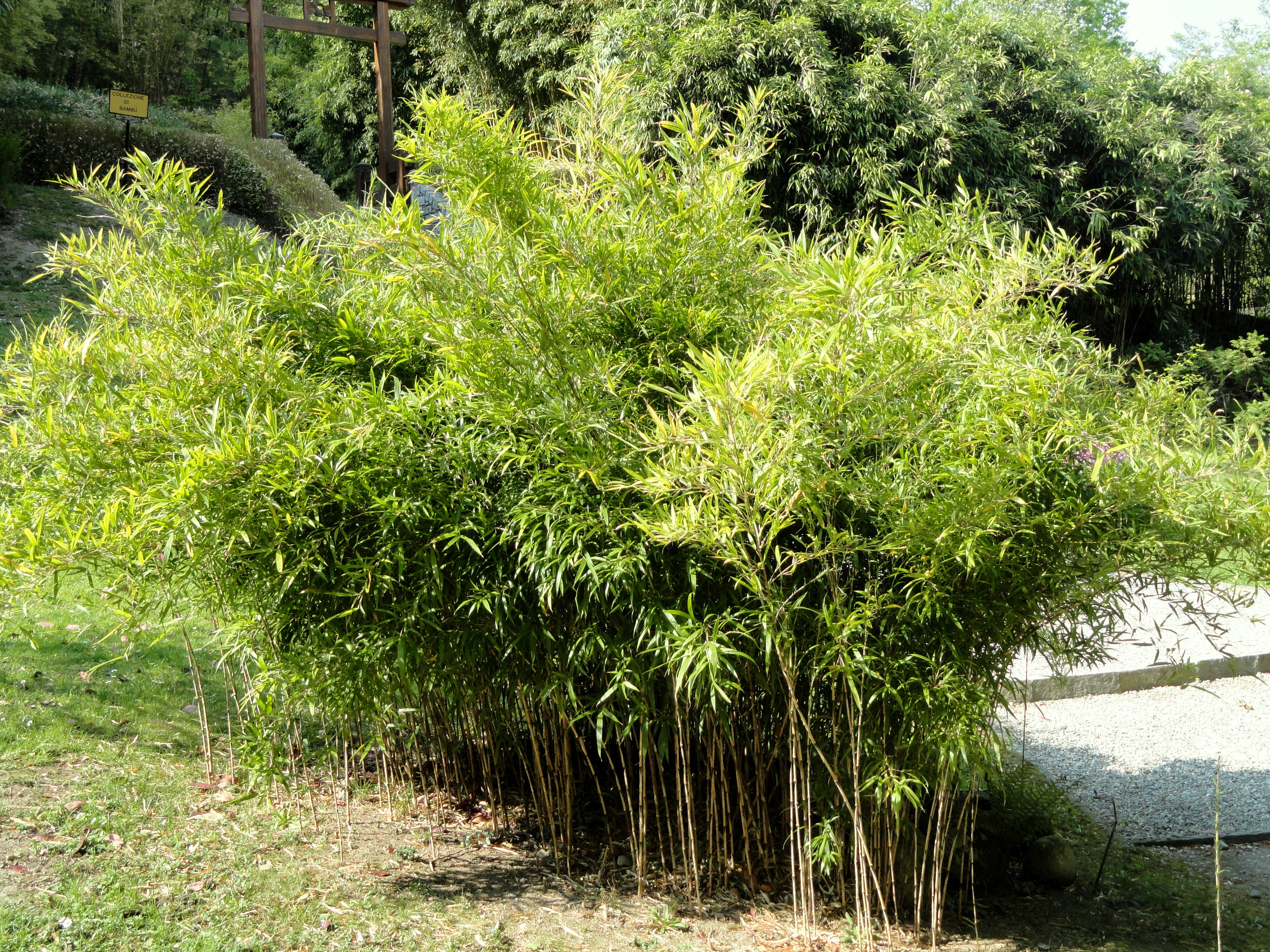 Chimonobambusa marmorea specimen in the Villa Carlotta (Tremezzo), on Lake Como, Italy.